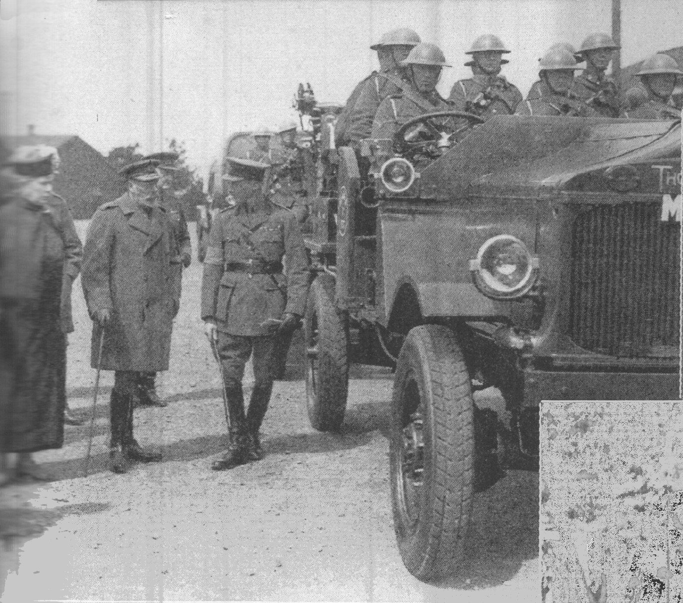 Their Majesties at Aldershot in May 1928, inspecting a mechanized machine-gun detachment. Approximate date of photograph: 1928-05